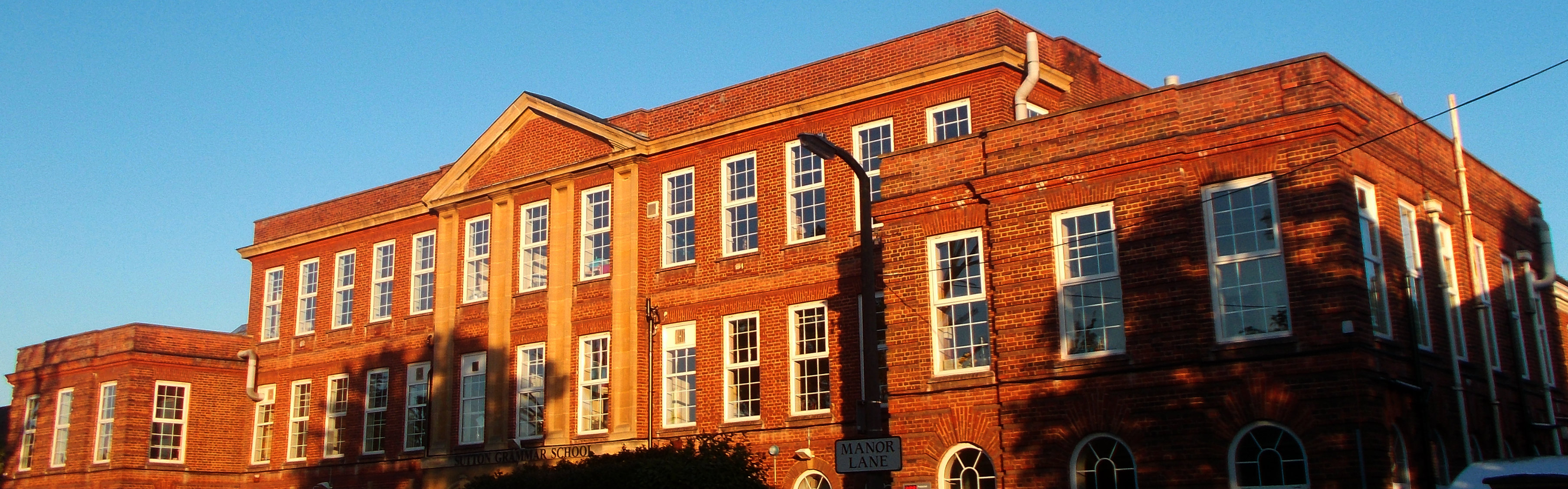 Sutton Grammar School for Boys, SUTTON, Surrey, Greater London